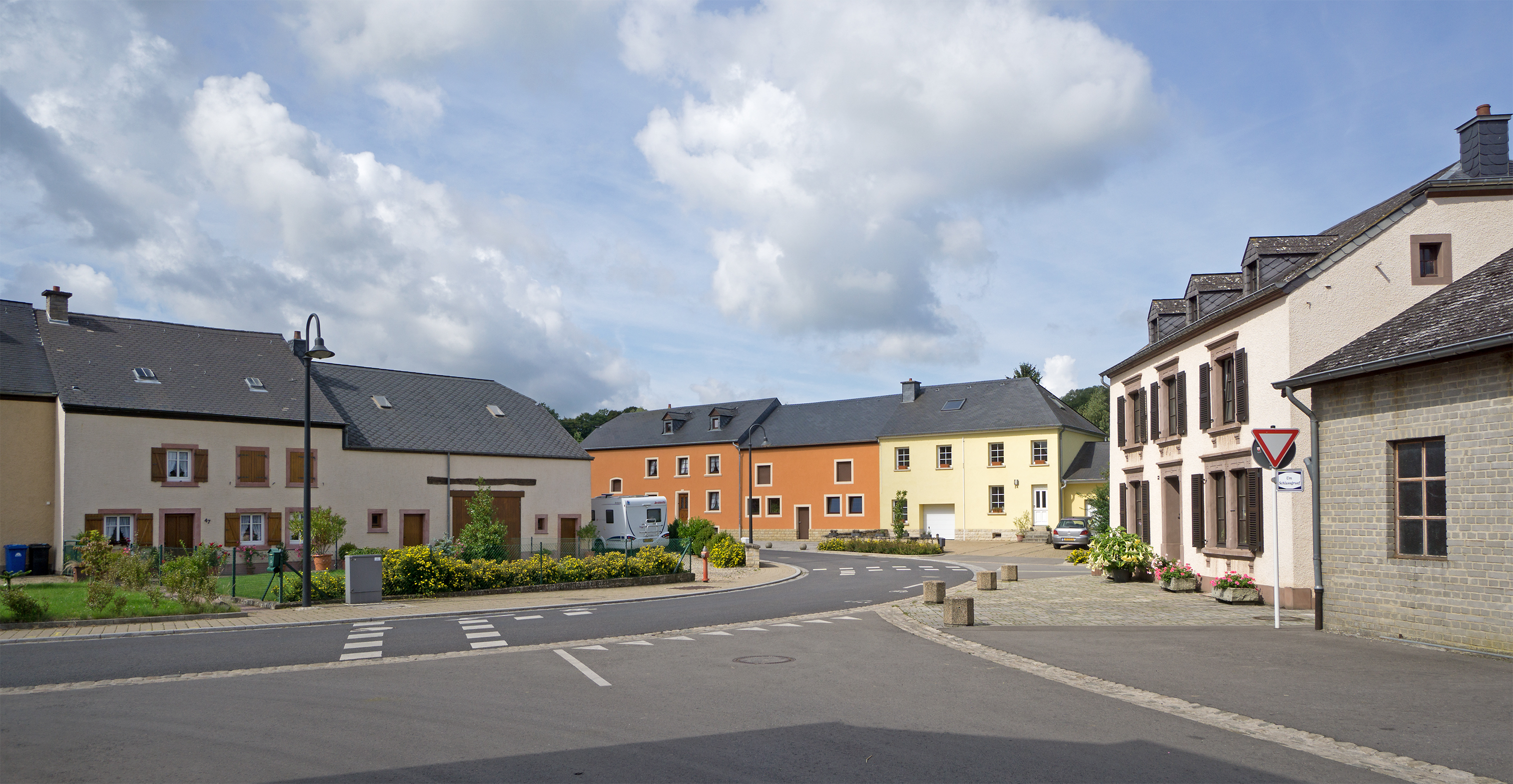 Rue du Château in Pettingen